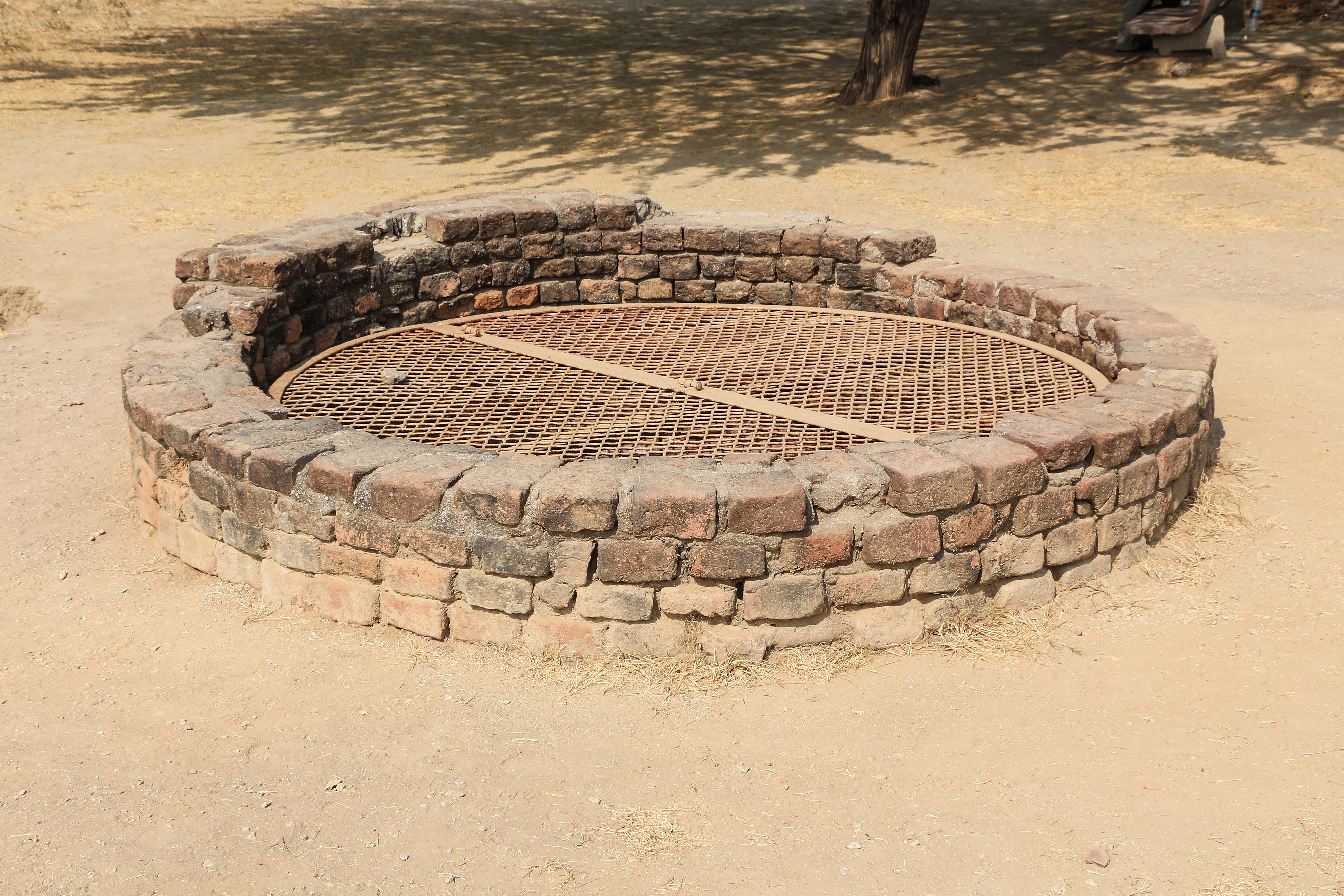 Ancient water well in the site of Lothal, India